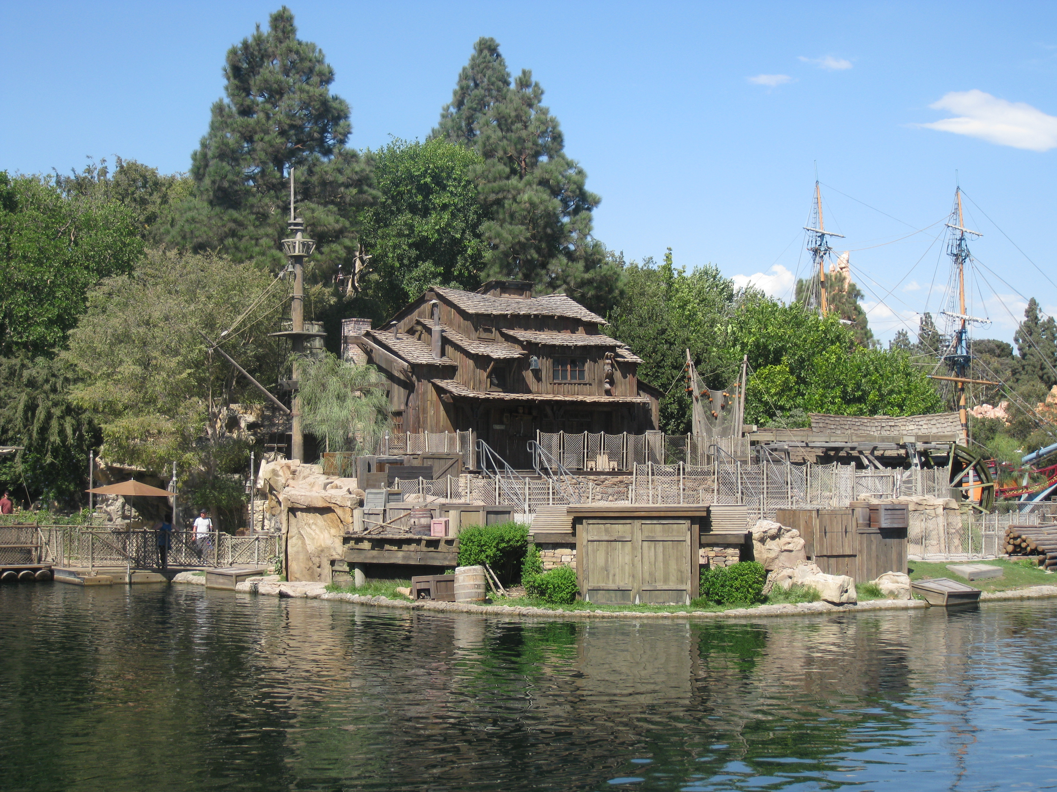 Tom Sawyer Island in Disneyland